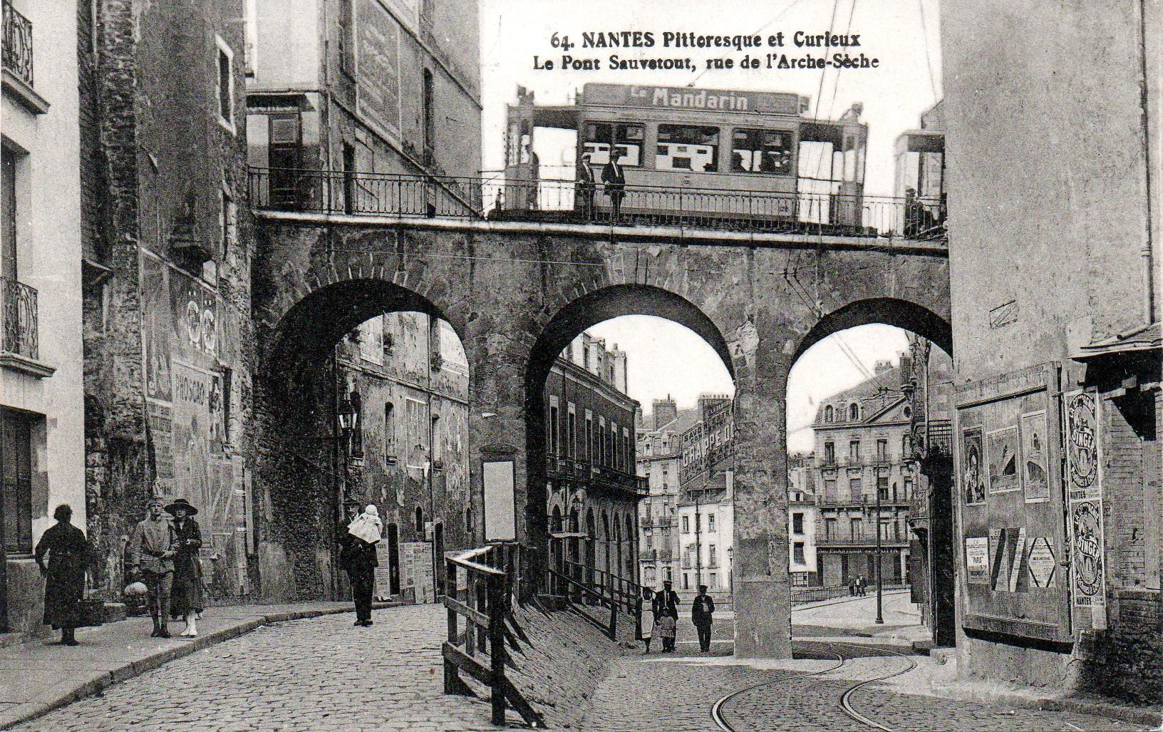 Tram in Nantes (Loire-atlantique, France) on Pont-Sauvetout from vintage postcard published by "Nantes Pittoresque et Curieux" in 1920